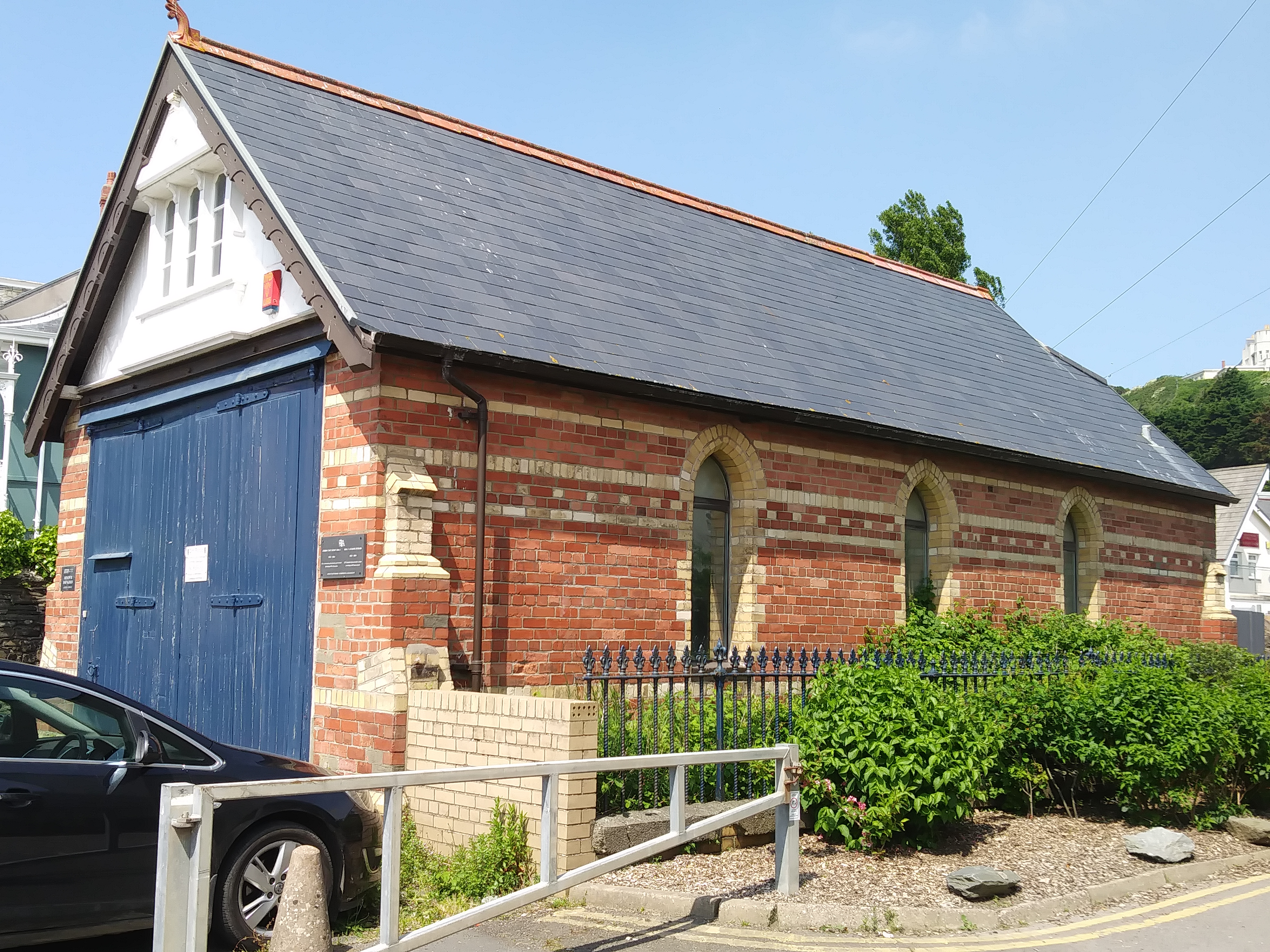 Old Lifeboat House, Aberystwyth, side